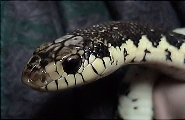 (Leioheterodon madagascariensis) Photographer: User:Dawson